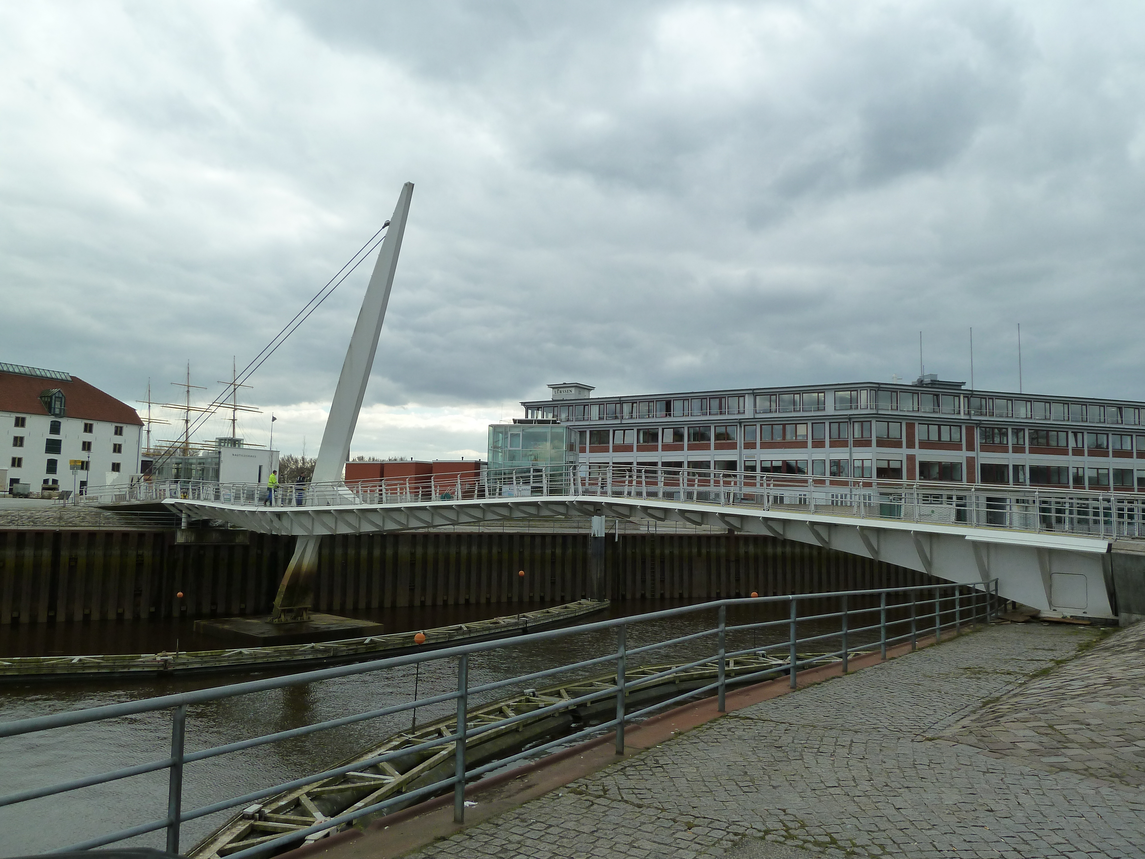 Vegesack harbour - pedestrian bridge